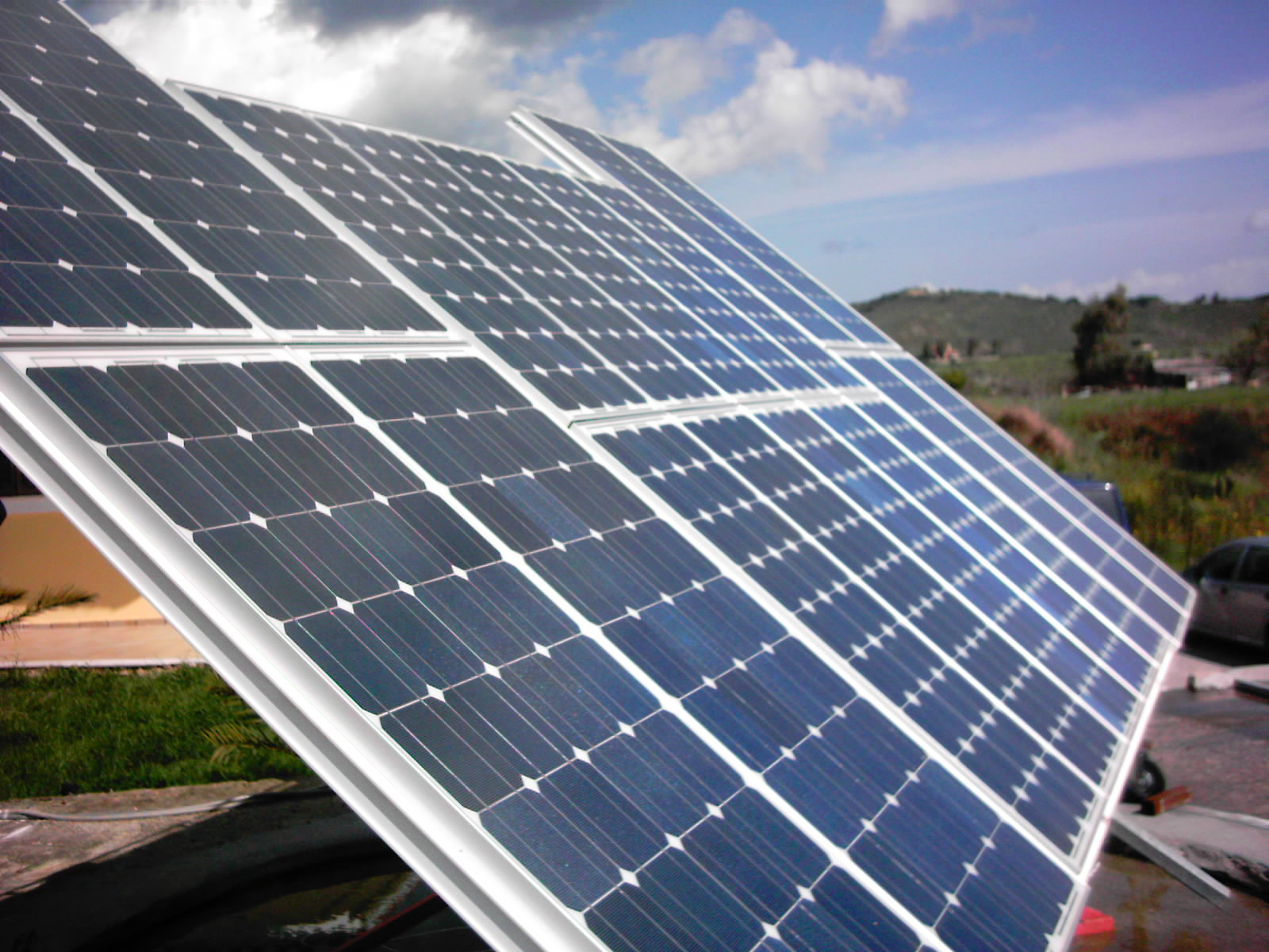 Solar tracker in Lixouri, Kefalonia, Greece